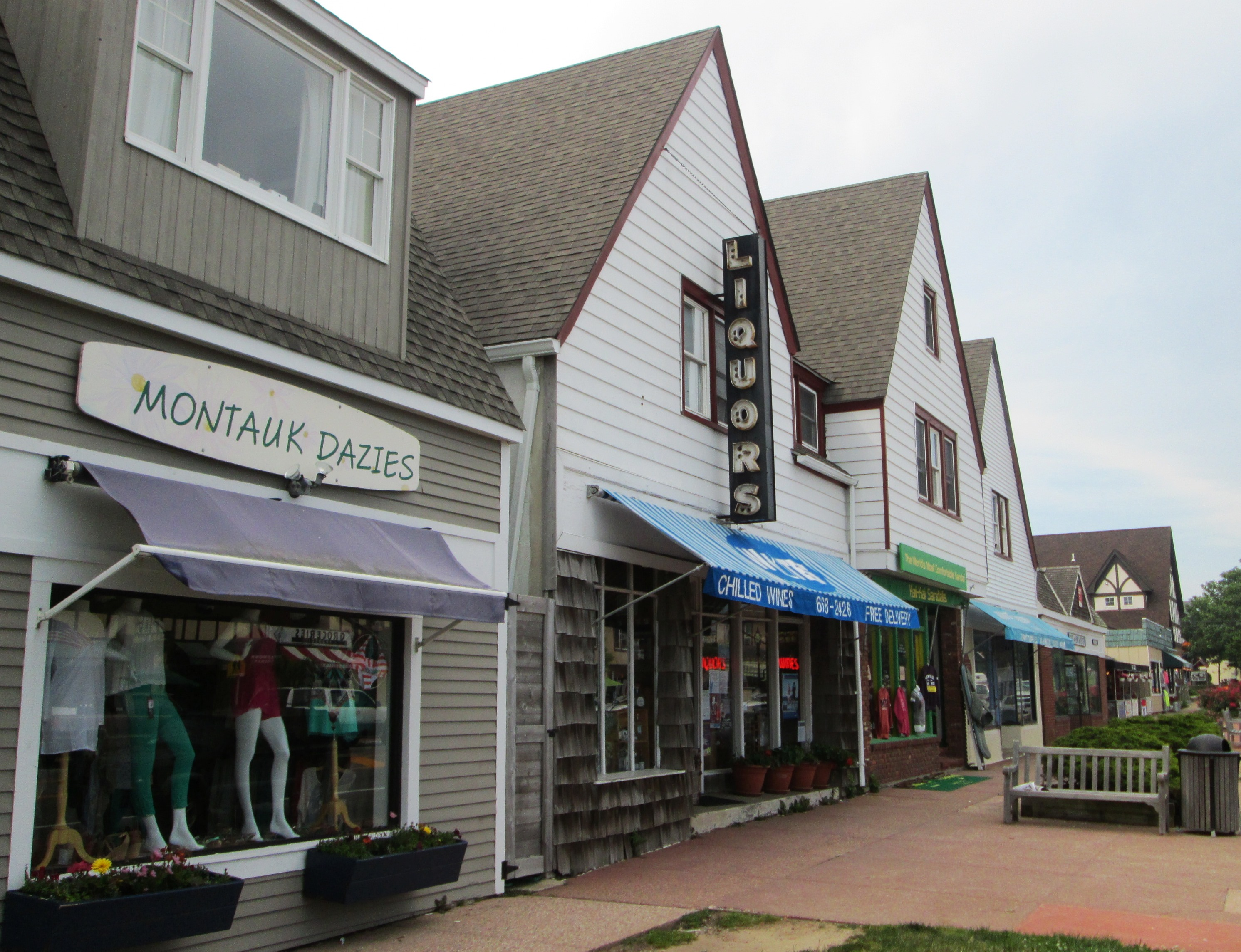 Shops on the north side of Main Street in Montauk, New York. The Tudor Revival architecture dates from Carl G. Fisher's failed attempt to make Montauk the Miami Beach of the north.